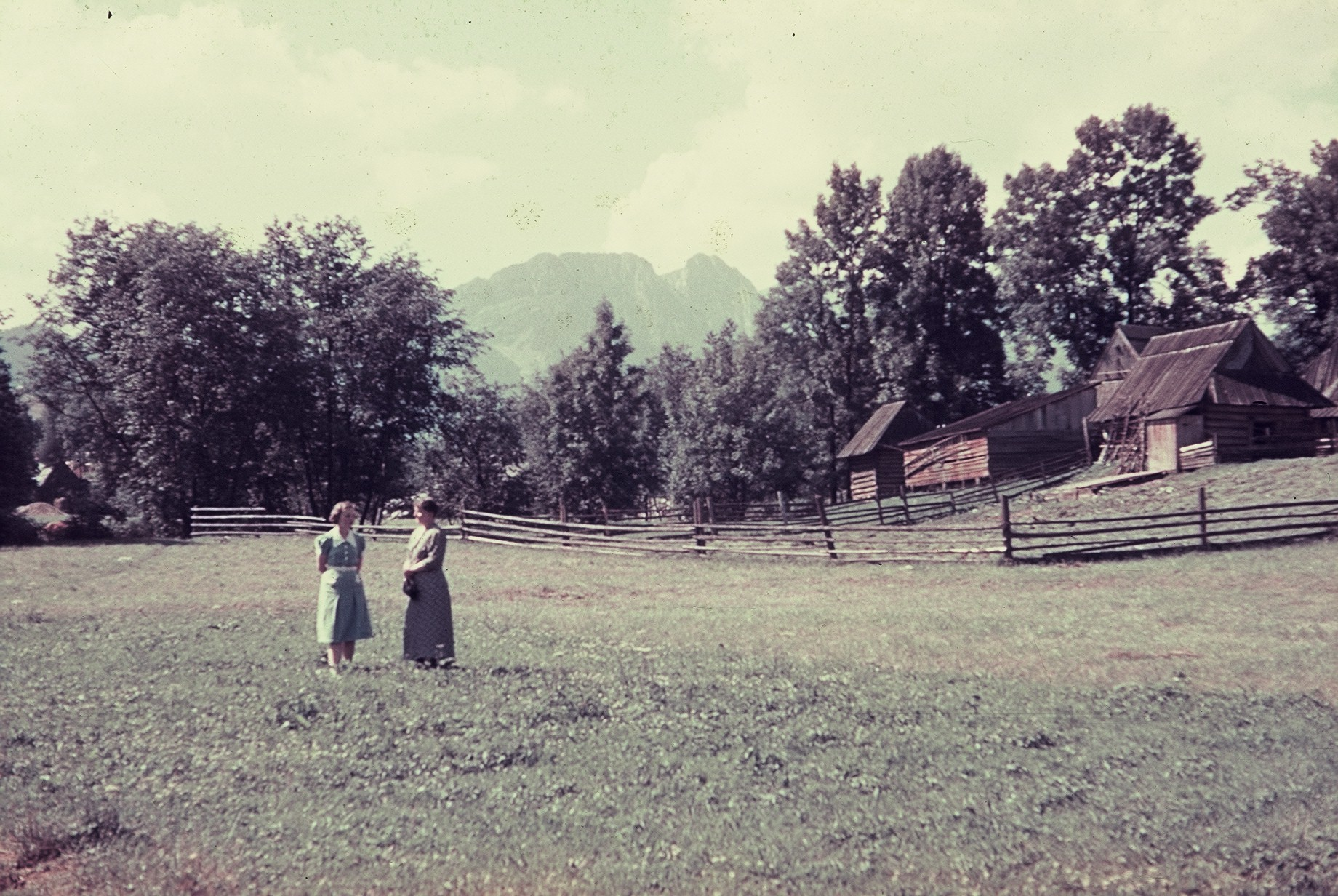 Zakopane, mountain massif Giewont, Poland 1938. This Agfacolor photo was not colorized.